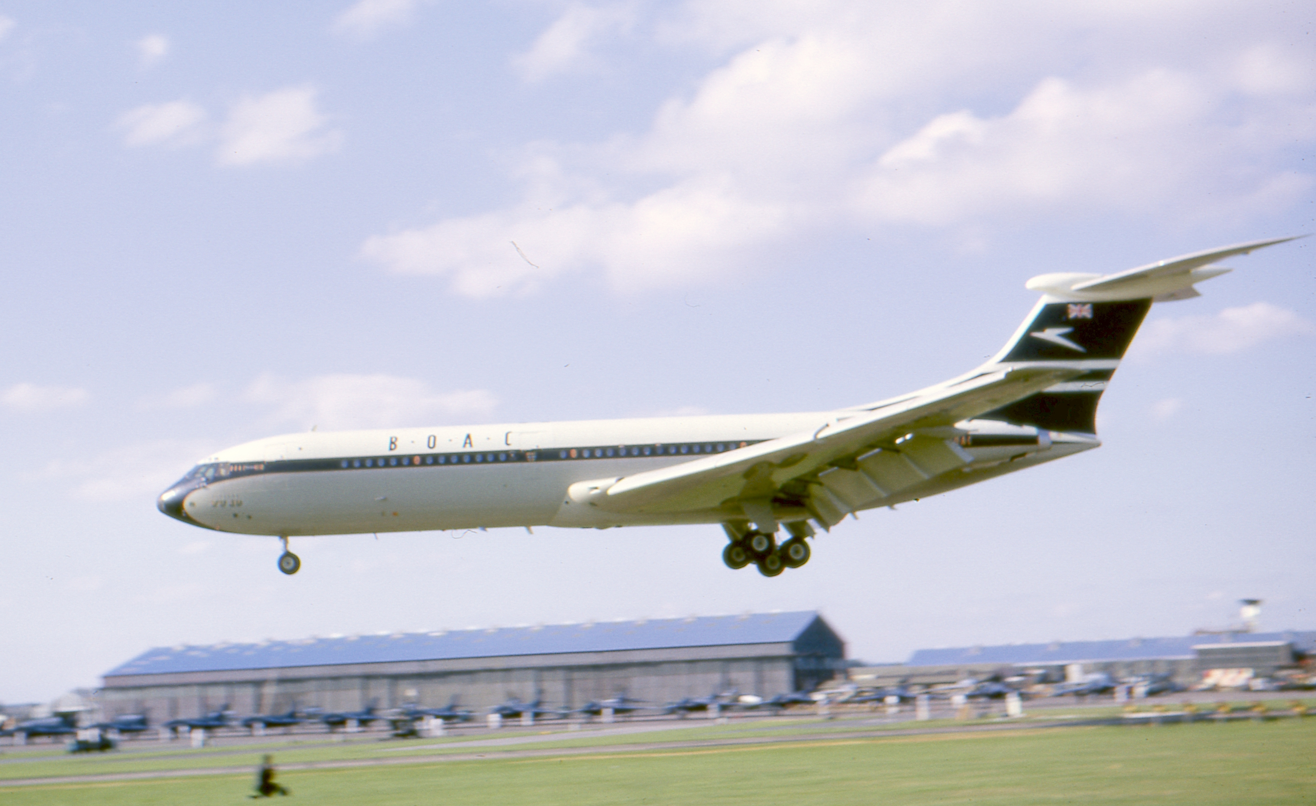 The prototype Vickers VC10, G-ARTA at the SBAC show, Farnborough 8 September 1962. Its first flight was not long before, on 29 June 1962.